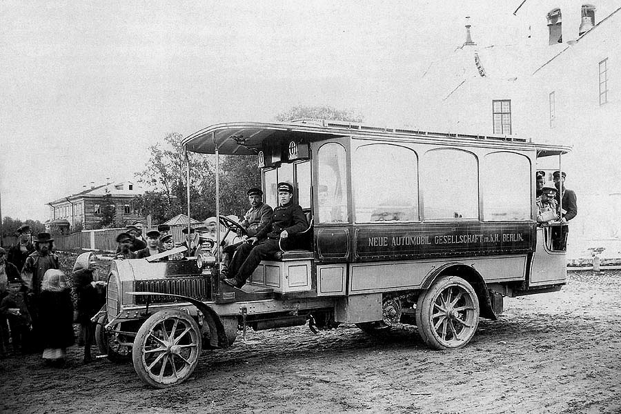 Bus in Arkhangelsk (1907)